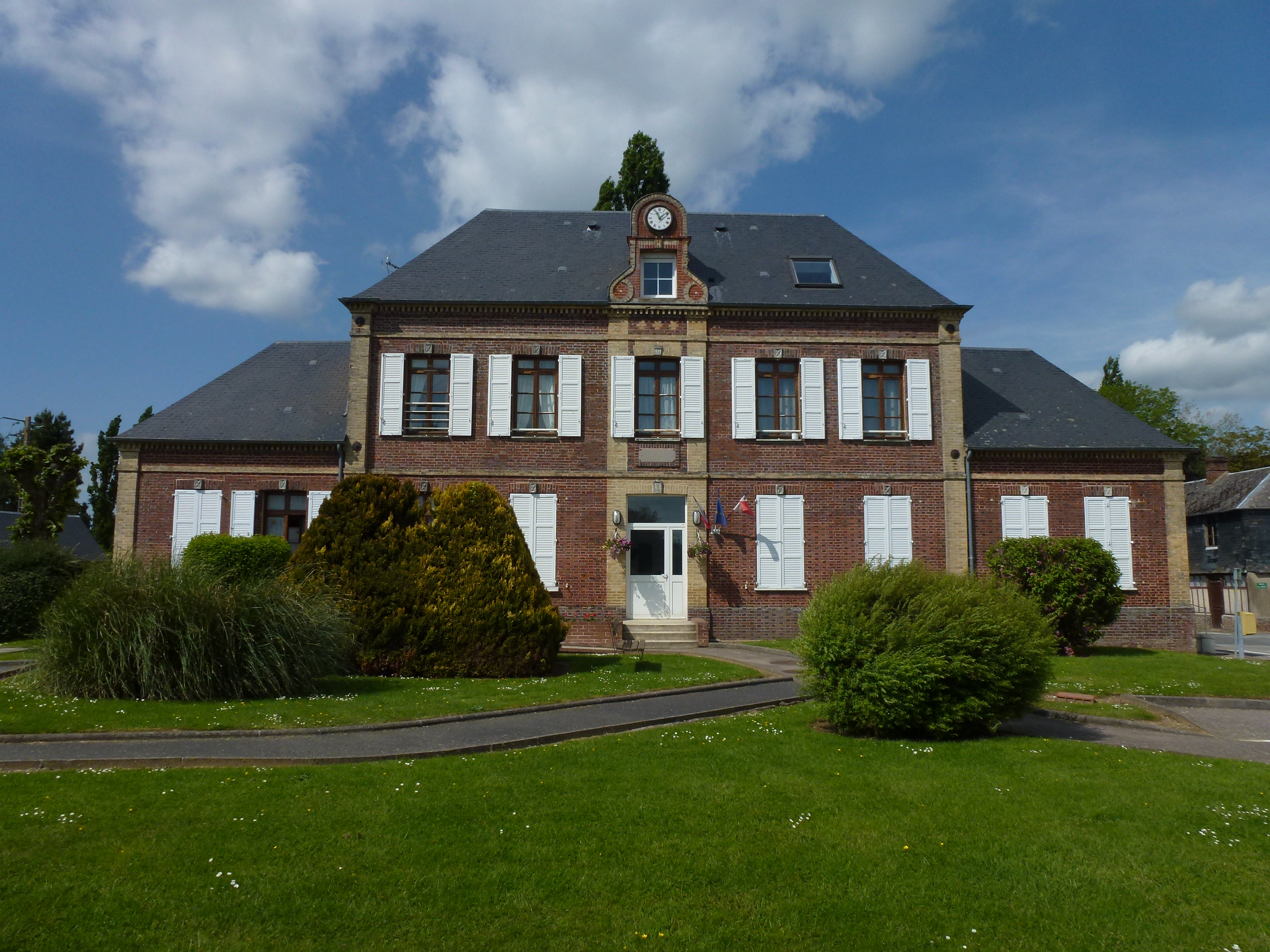 Sainte-Opportune-du-Bosc (Eure, Fr) mairie